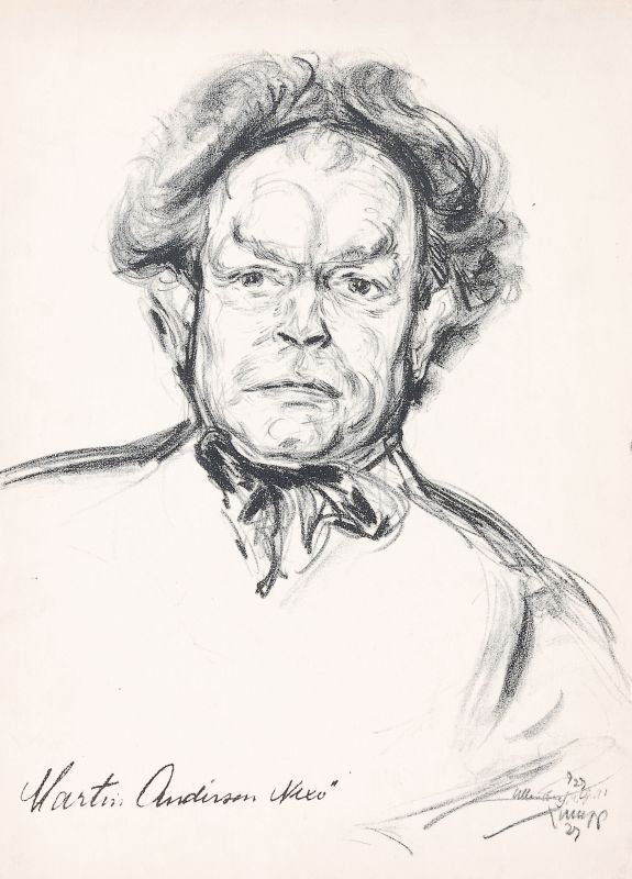 Emil Stumpp "Martin Andersen Nexö", 1921, lithograph on buff coloured paper, size: 49,5 x 35,5 cm.